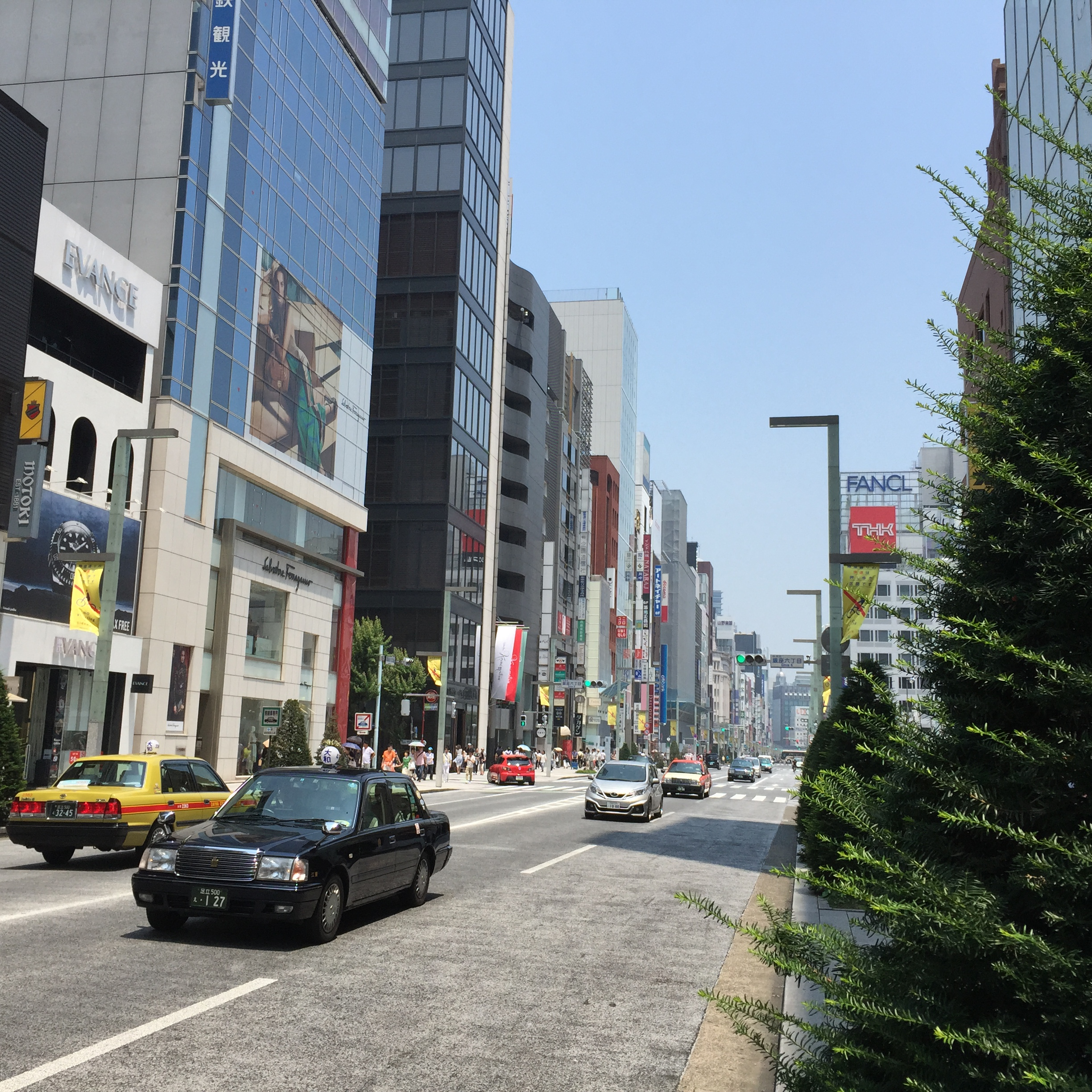 Ginza,Tokyo,JPN